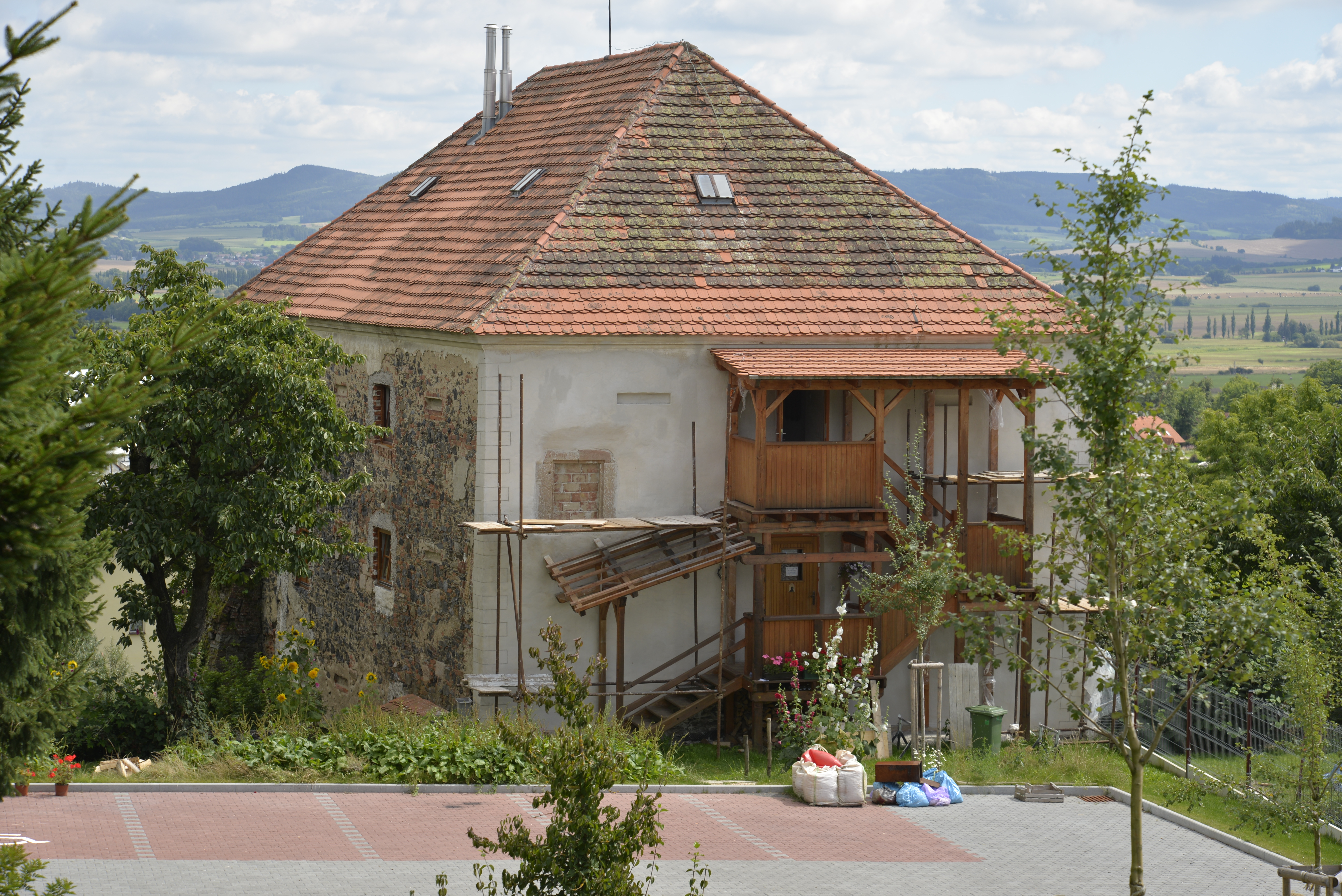 Stronghold, Štěpánovice 112, Štěpánovice (Klatovy).